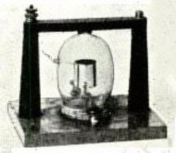 Early Fleming valve or thermionic diode, the first vacuum tube, invented by John Ambrose Fleming in 1904. It consists of an evacuated glass envelope containing two electrodes: a cathode in the form of a filament heated by a separate current, which emitted electrons, and a metal plate anode, which in this tube is a sheet metal cylinder surrounding the filament. The Fleming valve was used as a detector in early radio receivers, to extract the audio modulation (sound) from the radio frequency carrier wave. The incoming radio signal was applied across the tube. On the positive half cycles of the wave when the anode was positive with respect to the cathode, the negative electrons are attracted to the anode, causing a current through the tube, while when the anode is at a negative potential with respect to the cathode the electrons are repelled and no current flows. Thus the Fleming valve was able to rectify the alternating radio current to a pulsing direct current (DC). It was used in receivers built by the Marconi Co. until about 1920, when the Audion (triode) replaced it.